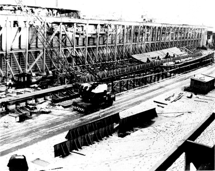 View of the keel of the U.S. Navy guided missile cruiser USS Long Beach (CGN-9) at the Fore River Shipyard, Quincy, Massachusetts (USA), circa in December 1957.